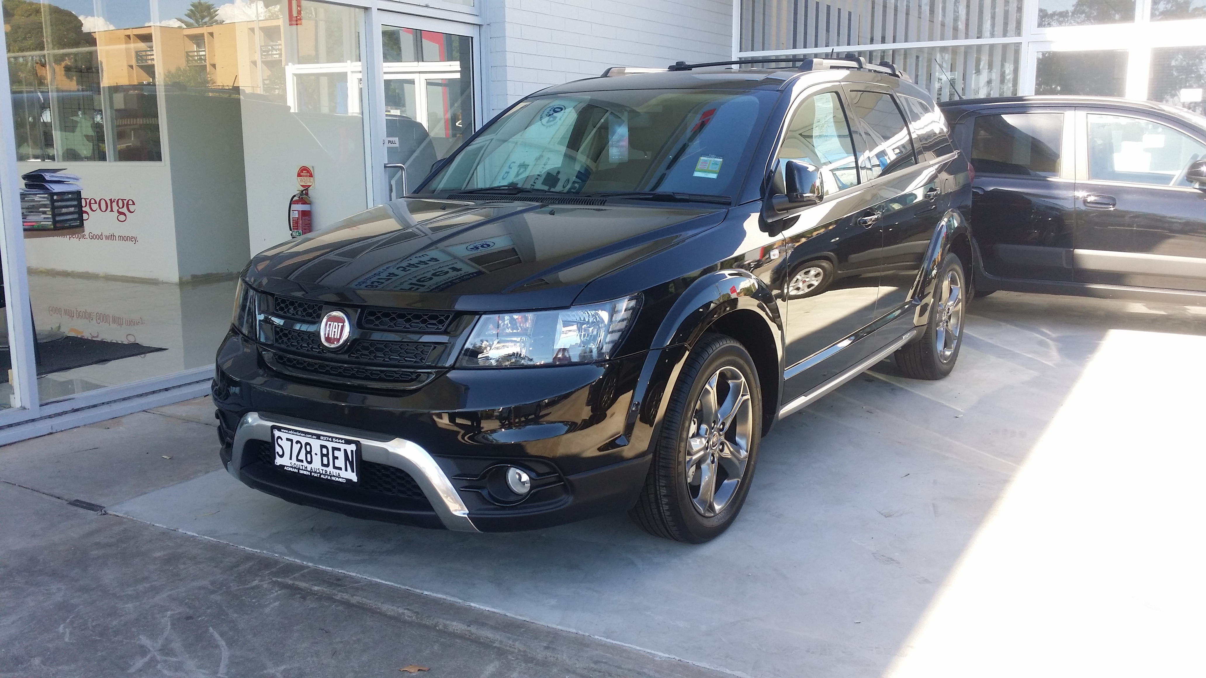 2014 Fiat Freemont Crossroads V6